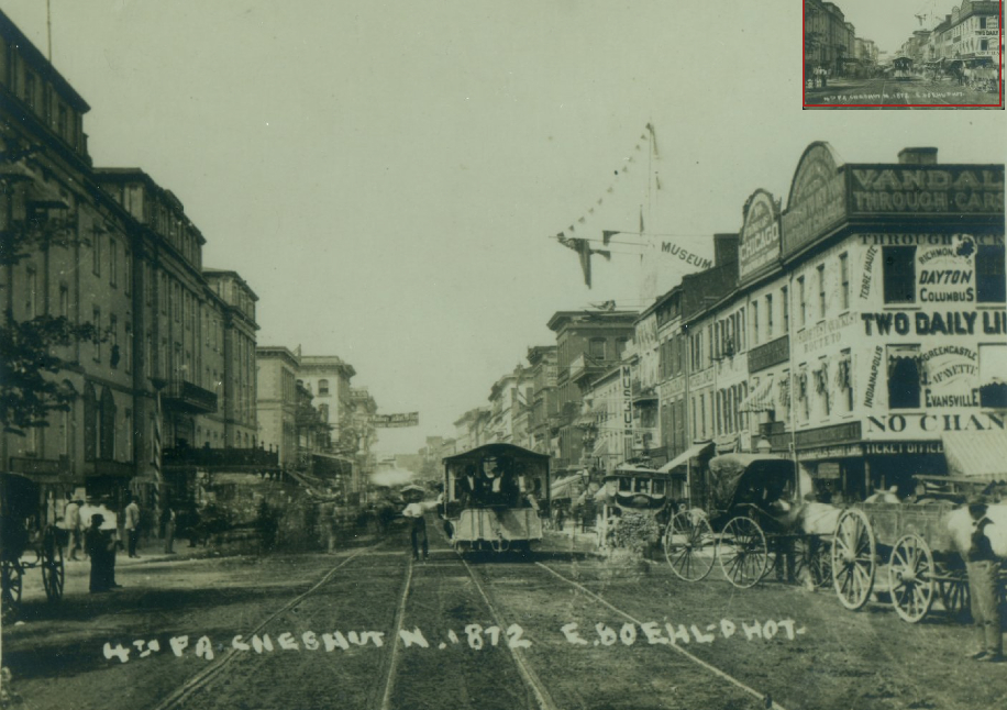 St. Louis, Missouri, 4th Fa. Chesnut N. 1872